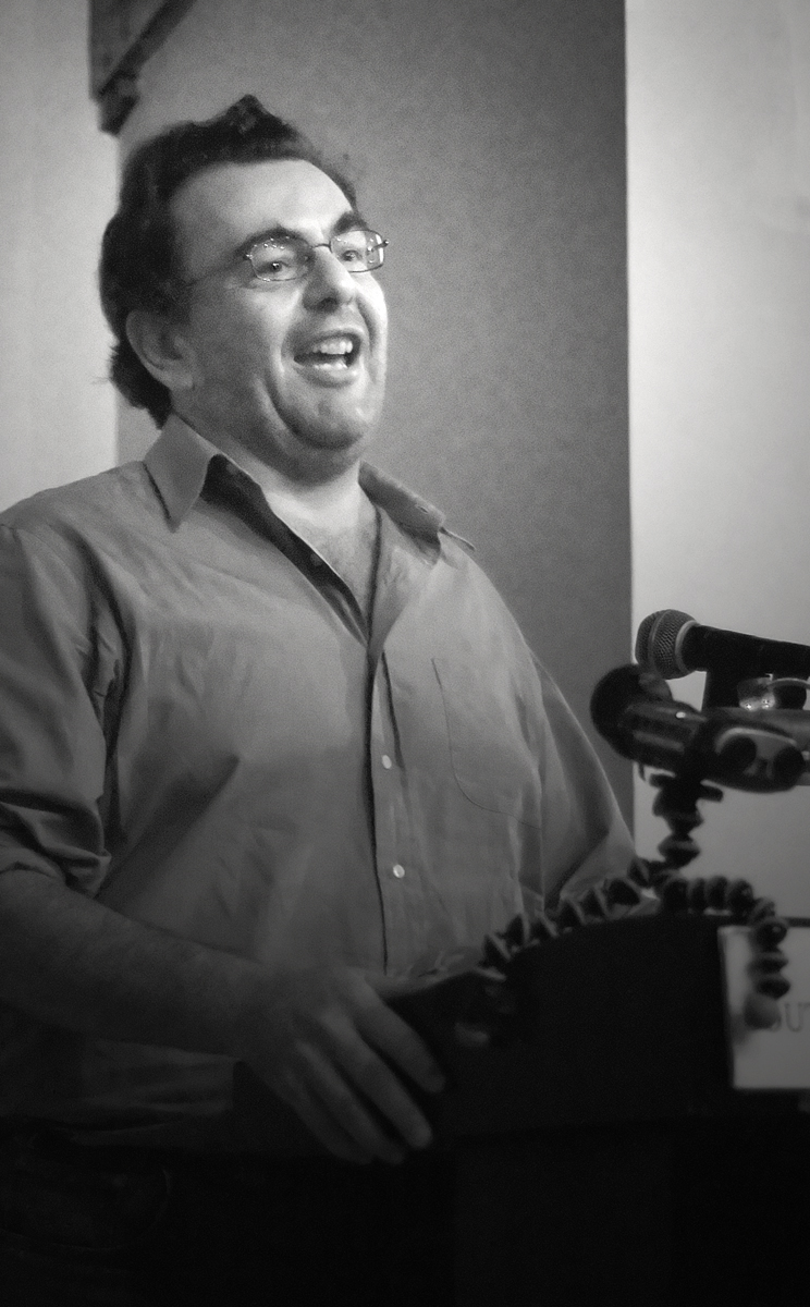 Paul Di Filippo F&SF 60th Anniversary South Street Seaport 2009-10-06